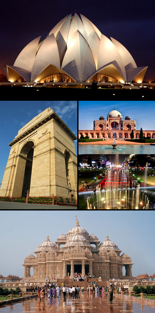 Images, from top, left to right: Lotus Temple in South Delhi India Gate Akshardham Temple Connaught Place